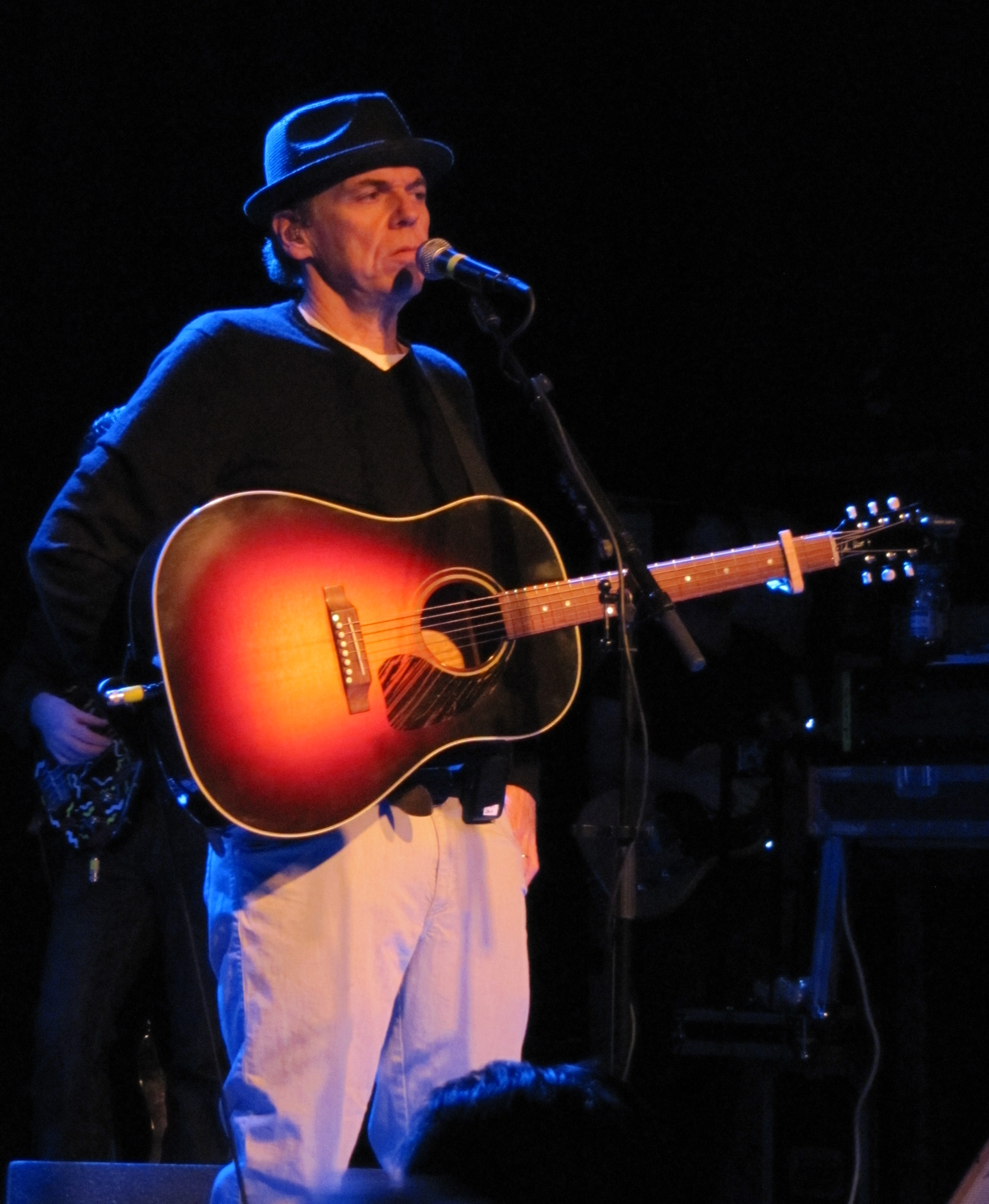 John Hiatt at Tavastia, Helsinki 6.11.2010